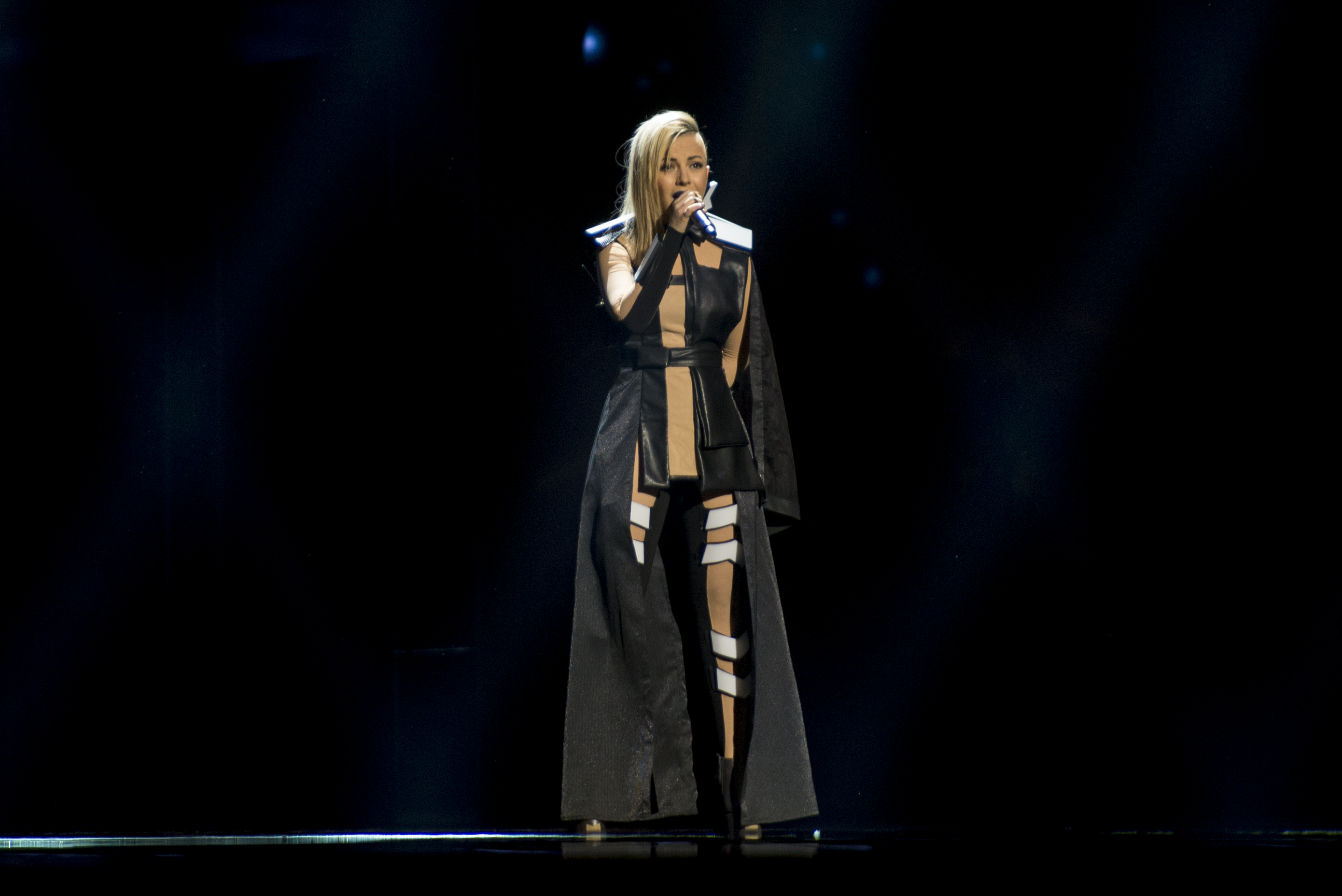 Poli Genova representing Bulgaria with the song "If Love Was a Crime" during a rehearsal before the second semi final of the Eurovision Song Contest 2016 in Stockholm. (Help translate this text)